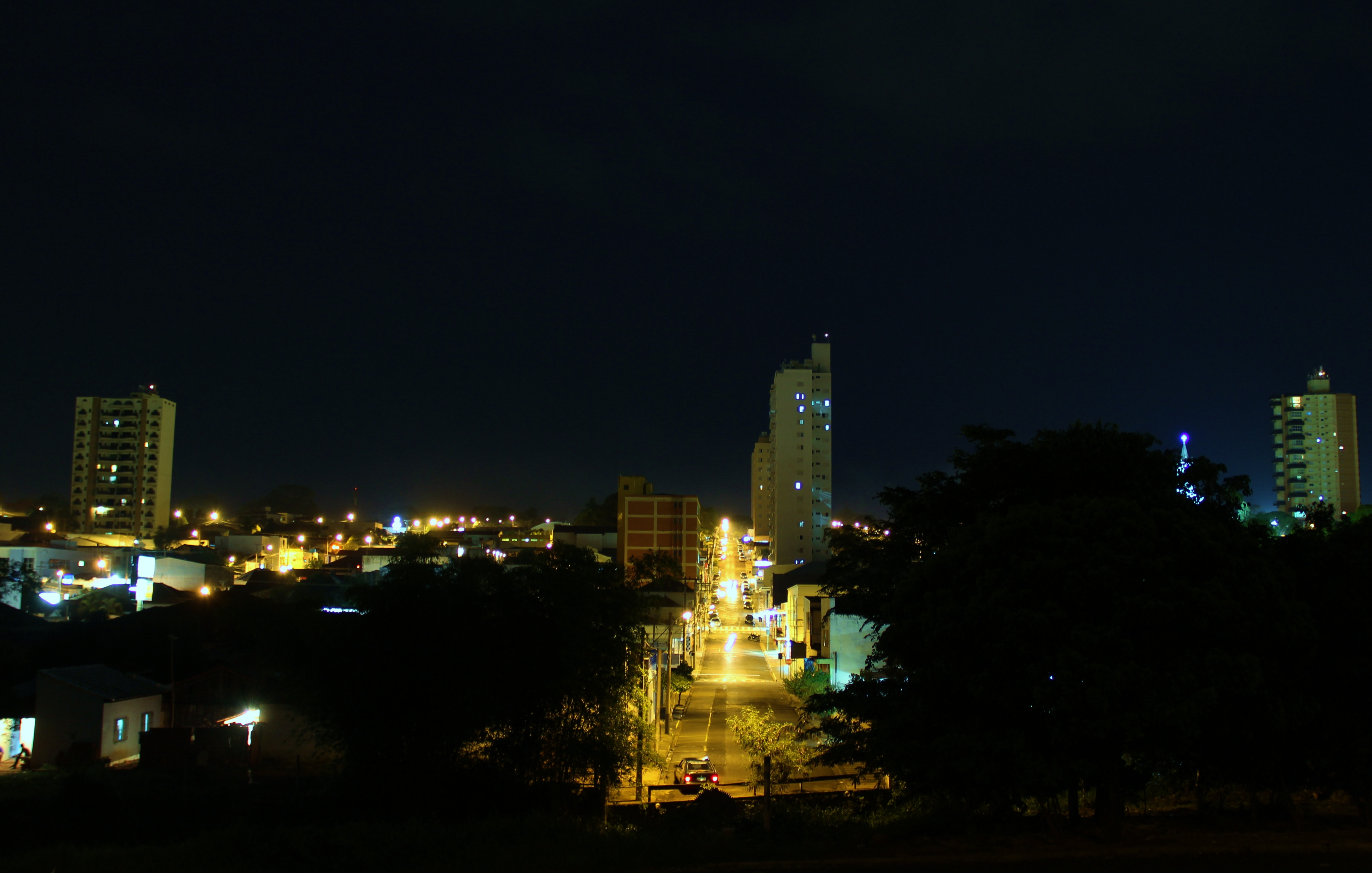 Lençóis Paulista downtown at night from the old train station.